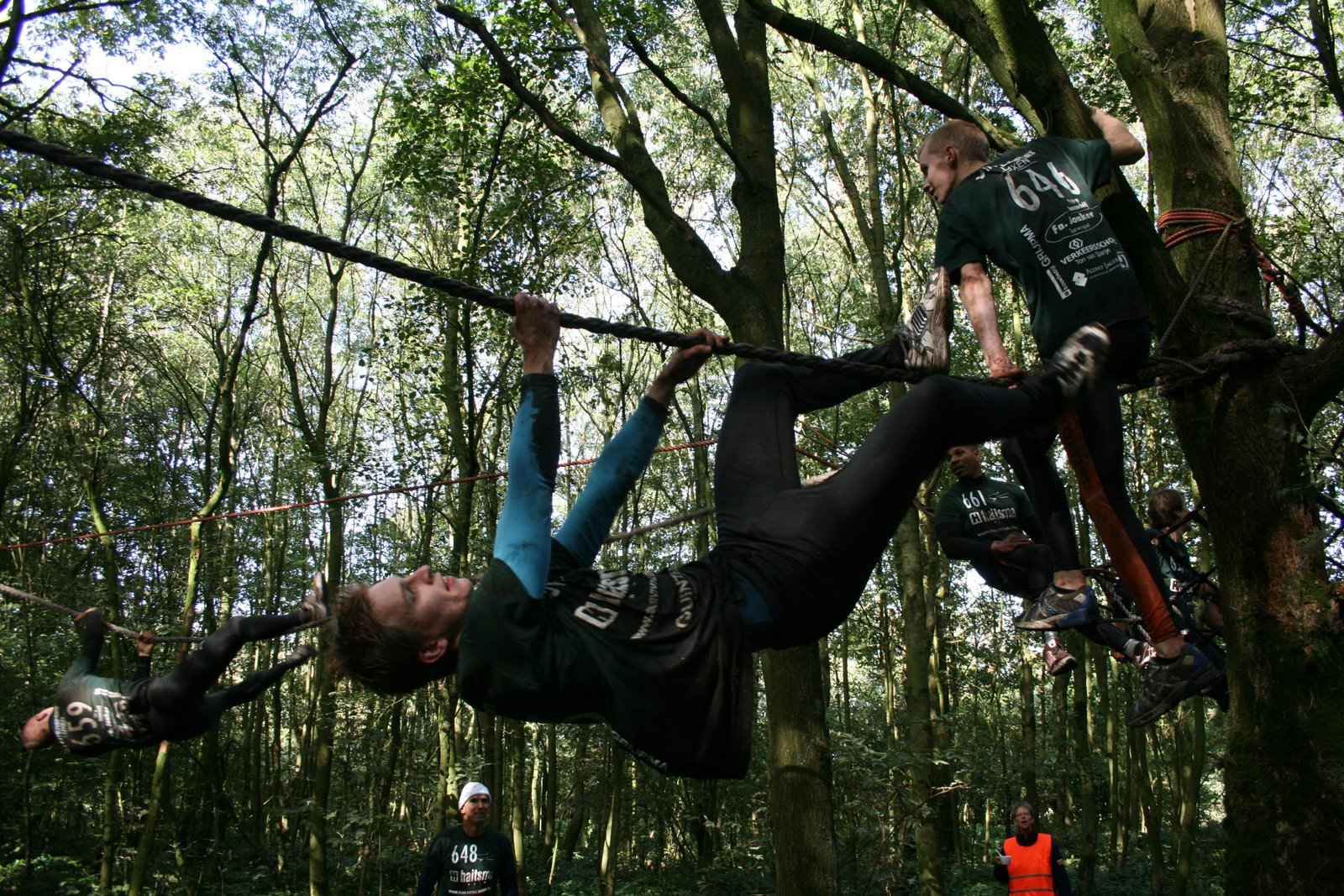 People climb an obstacle during a survival run in Leeuwarden, the Netherlands